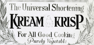 Kream Krisp (Crisco) made by the Brown Co. of Berlin, N.H.